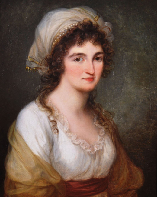 Portrait of Domenica Volpato, by Angelica Kauffmann, 1791. Museo Borgogna Domenica Volpato, daughter of the Venetian engraver Giovanni Volpato (1740-1803), married the etcher Raffaello Sanzio Morghen (1758-1833) in 1781.